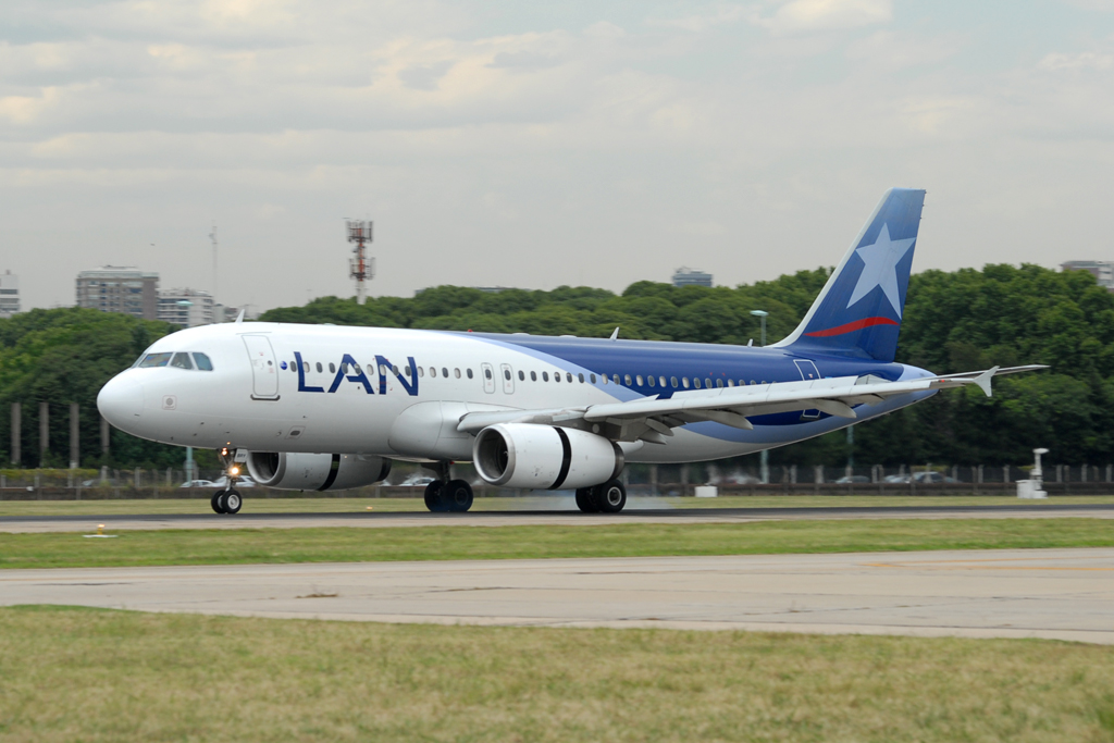 LAN Argentina LV-BRY Airbus A320-233 msn 1351 seen landing at Buenos Aires Aeroparque (AEP/SABE). Aircraft transfered from LAN Chile ex CC-COE